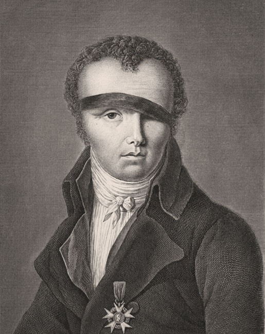 Nicolas-Jacques Conté (1755-1805), who experimented with the use of hydrogen for balloons.